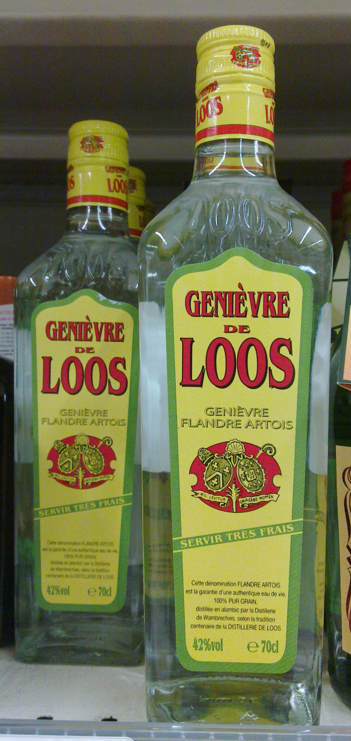 French Loos Jenever bottles, distilled in alembic by Claeyssens distillery in Wambrechies with respect of Loos distillery tradition.